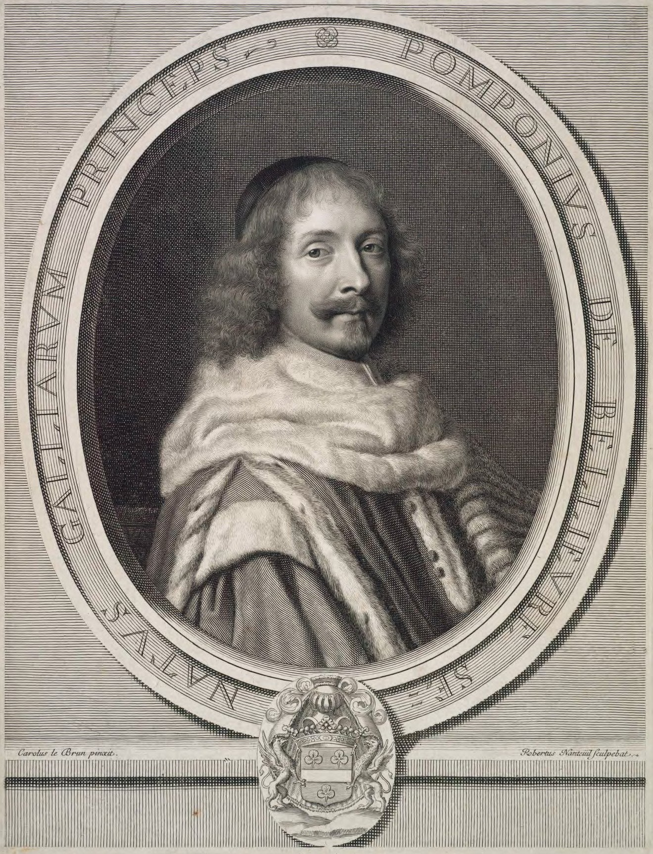 Engraved portrait of Pomponne de Bellievre, first president of the Parliament of Paris